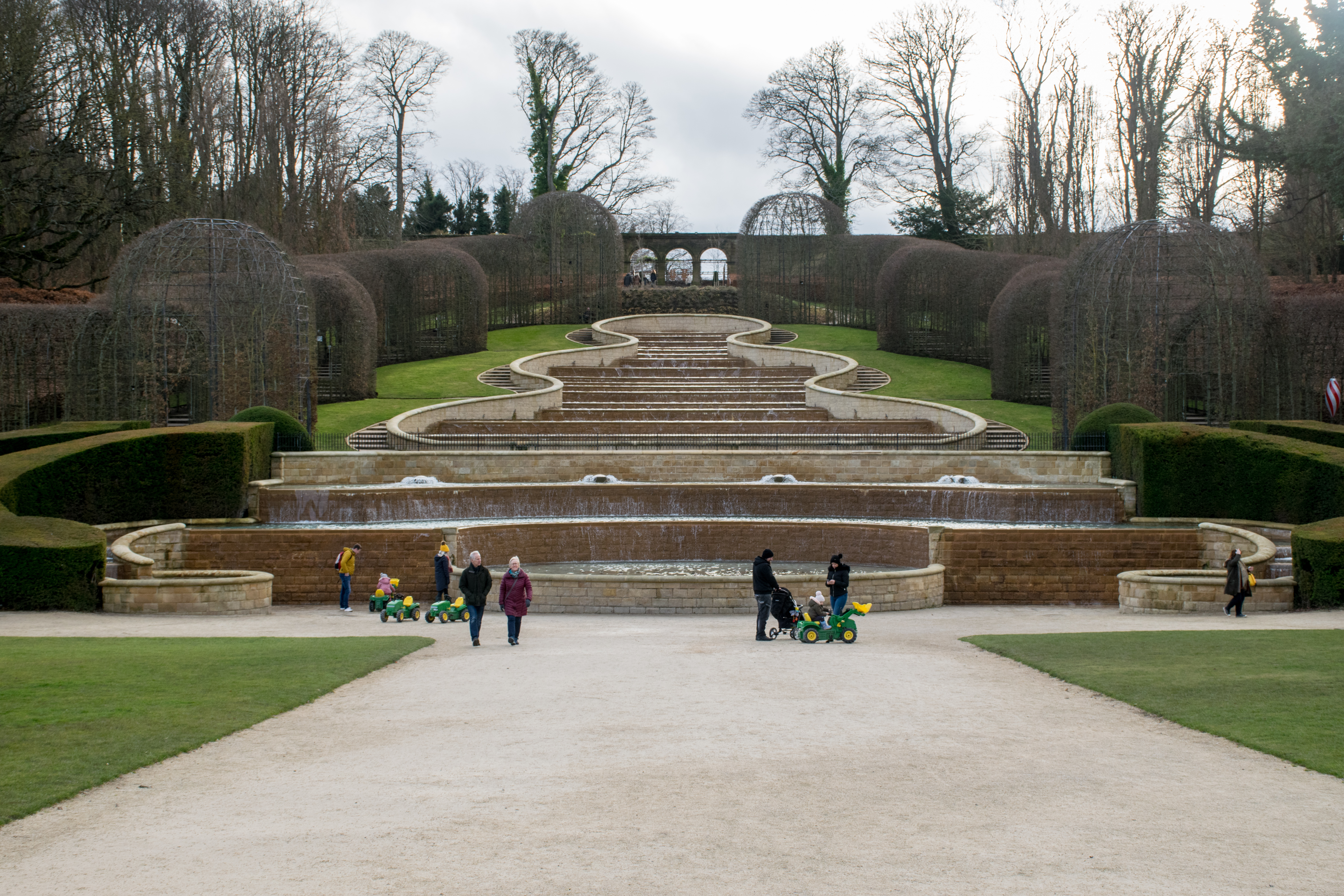 The cascade at the centre of The Alnwick Garden, Northumberland, England